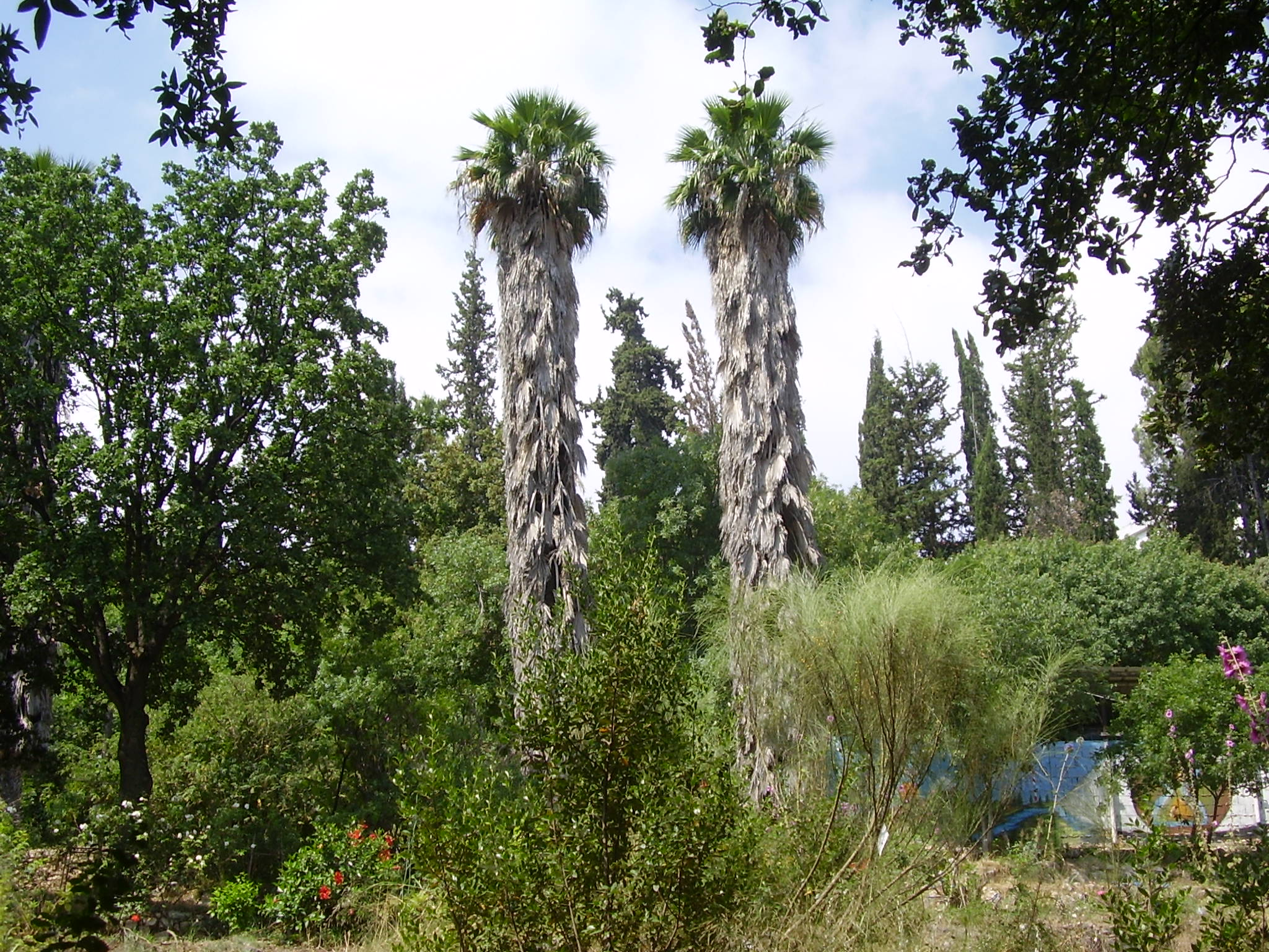 Oranim College Botanic Garden